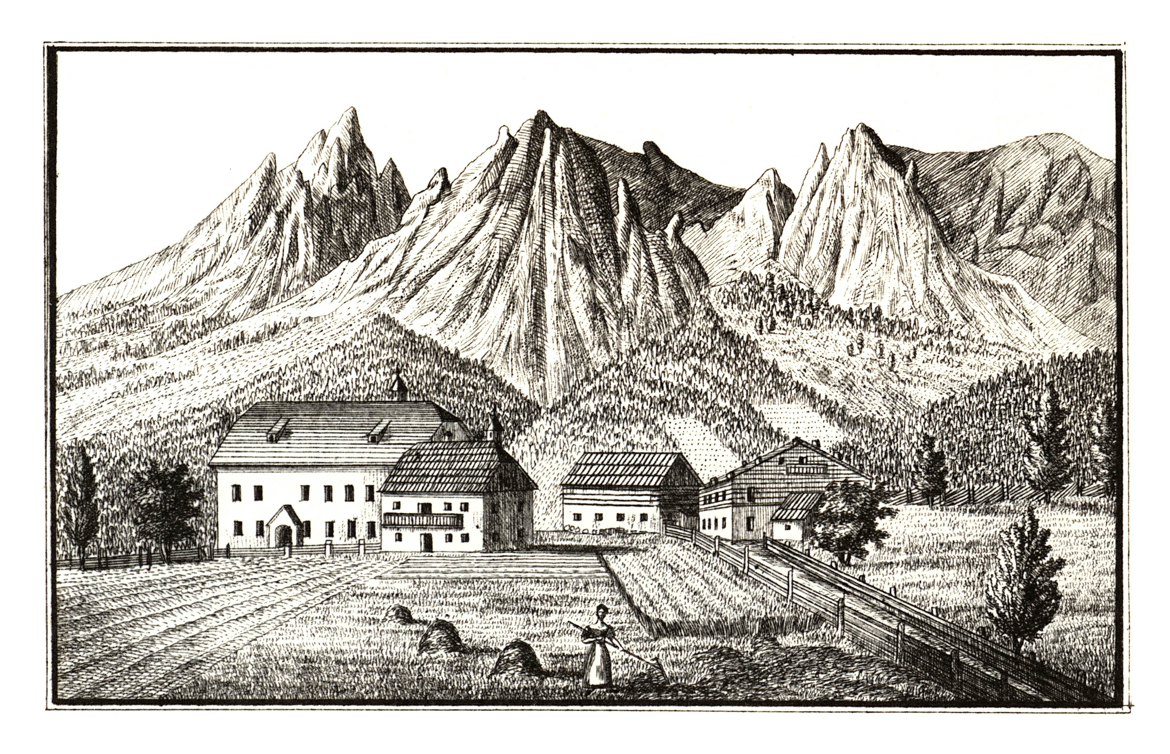 J. F. Kaiser - lithographirte Ansichten der Steyermärkischen Städte, Märkte und Schlösser, Graz 1824-1833 Joseph Franz Kaiser (1786–1859) Alternative names J. F. KaiserDescriptionAustrian printer and editorDate of birth/death 11 March 1786 19 September 1859Location of birth/death Graz (Styria) GrazAuthority control : Q1499963 VIAF: 30629353 ISNI: 0000 0000 3083 0153 LCCN: n87141671 GND: 129880159 NLP: A24960305 WorldCat creator QS:P170,Q1499963 . Scanprojekt Community Projektbudget 2012 This scan or this PDF-file was created within the GLAM-project Bookscanning, supported by Wikimedia Germany and Wikimedia Austria as a part of the community-project to capture books, documents and pictures which are not eligible to copyright or for which the copyright has expired. This document describes or depicts an object which is located in Austria today. Send requests for uncompressed scans to Hubertl. This work is in the public domain in its country of origin and other countries and areas where the copyright term is the author's life plus 100 years or less. You must also include a United States public domain tag to indicate why this work is in the public domain in the United States. This file has been identified as being free of known restrictions under copyright law, including all related and neighboring rights.